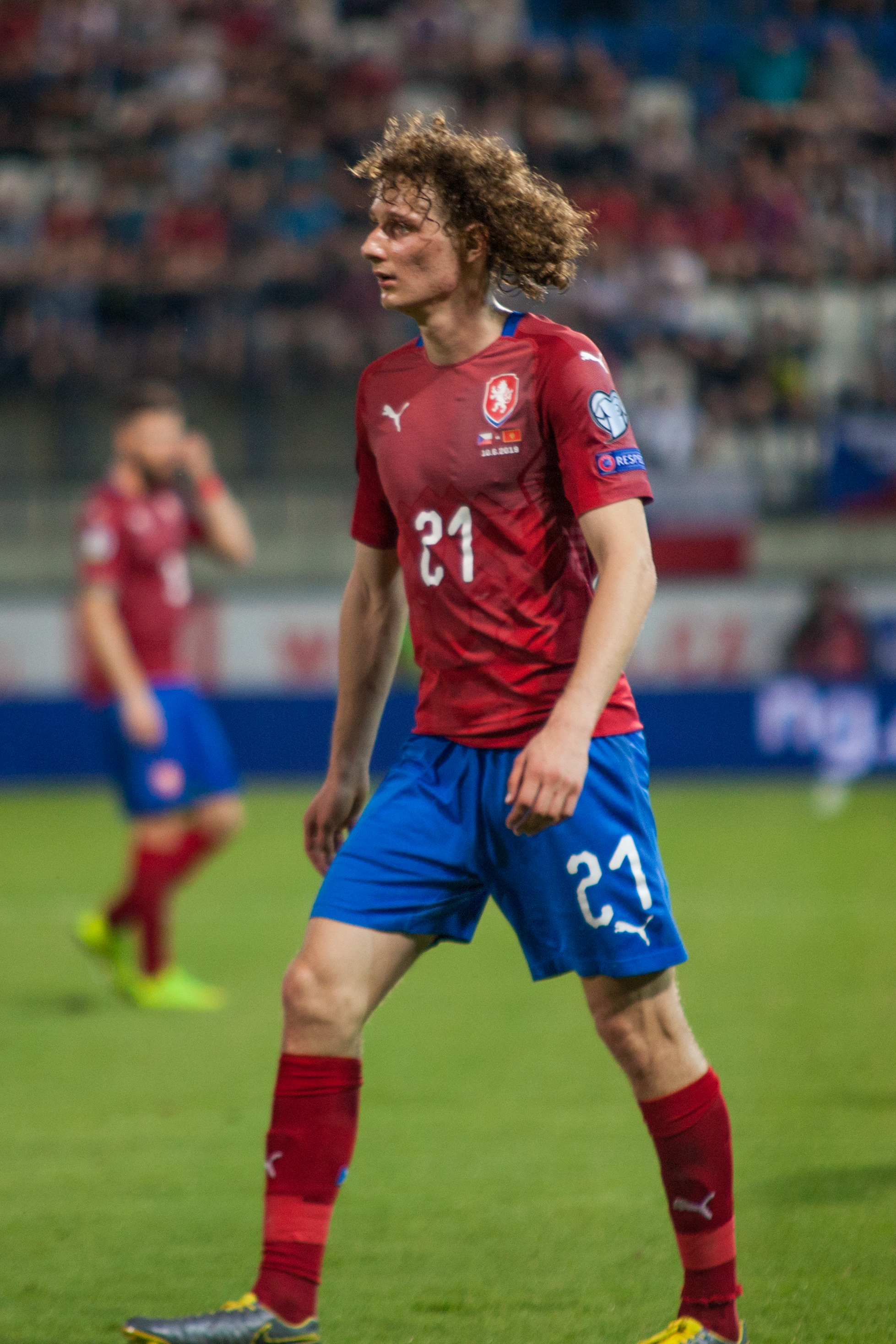 Alex Král at EURO 2020 Qualifying Round Czech Republic-Montenegro (10/6/2019, Ander Stadium, Olomouc) Personality rights warningAlthough this work is freely licensed or in the public domain, the person(s) shown may have rights that legally restrict certain re-uses unless those depicted consent to such uses. In these cases, a model release or other evidence of consent could protect you from infringement claims.